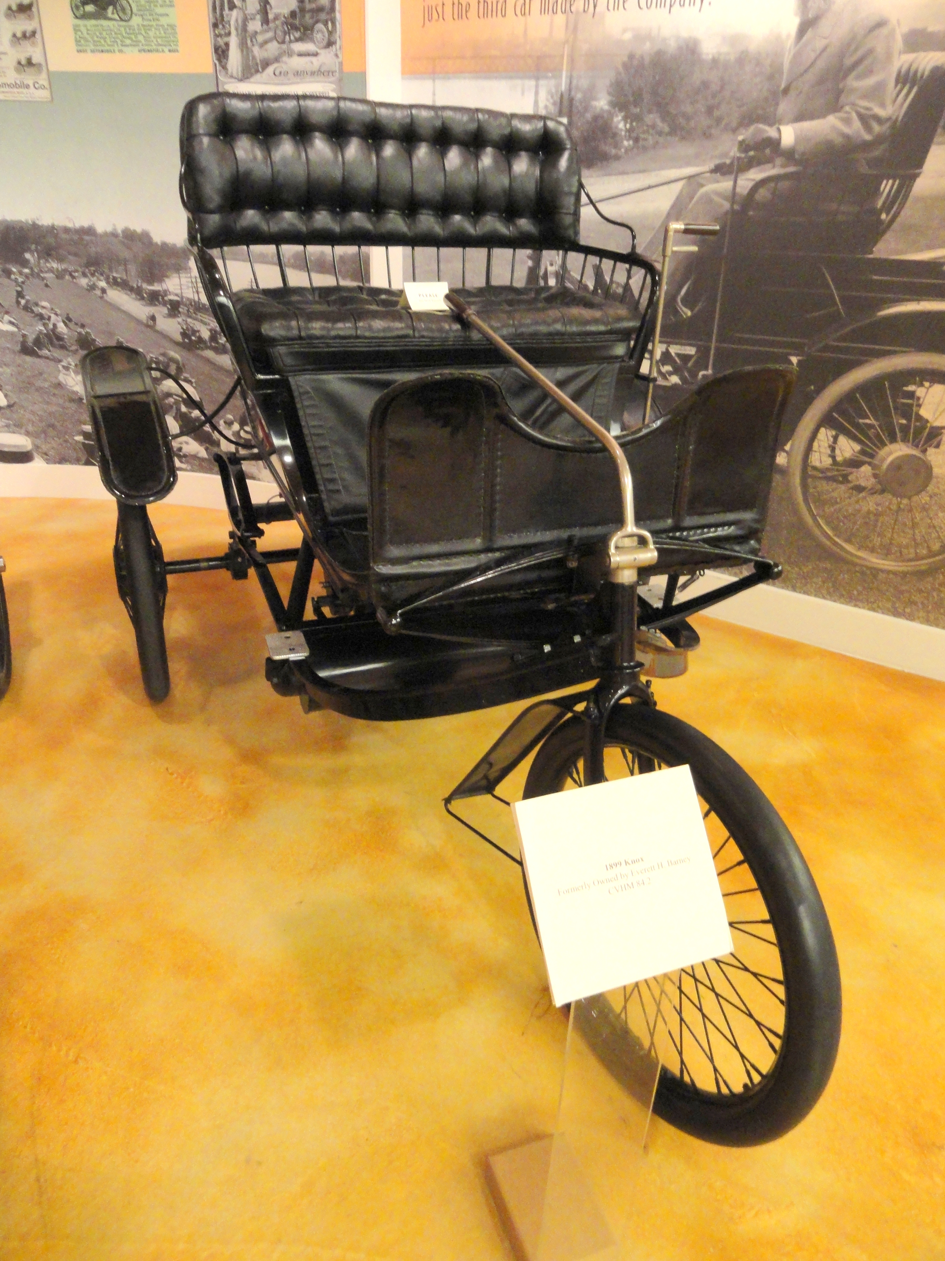 Exhibit in the Lyman & Merrie Wood Museum of Springfield History, Springfield, Massachusetts, USA. This exhibit is old enough so that it is in the public domain.